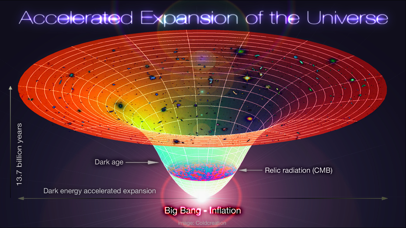 Lambda-Cold Dark Matter, Accelerated Expansion of the Universe, Big Bang-Inflation (timeline of the universe)